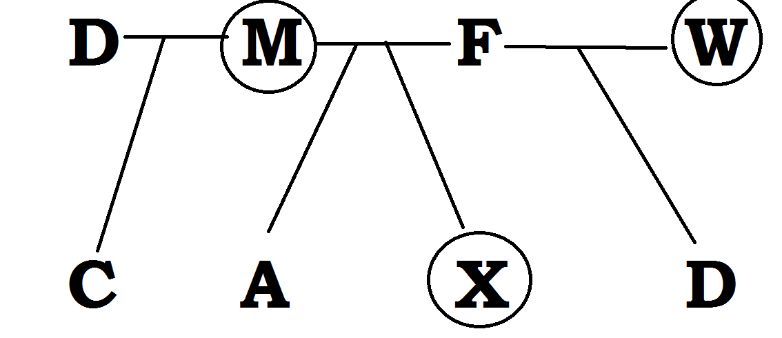 Diagram illustrating example of order of succession in South African law.